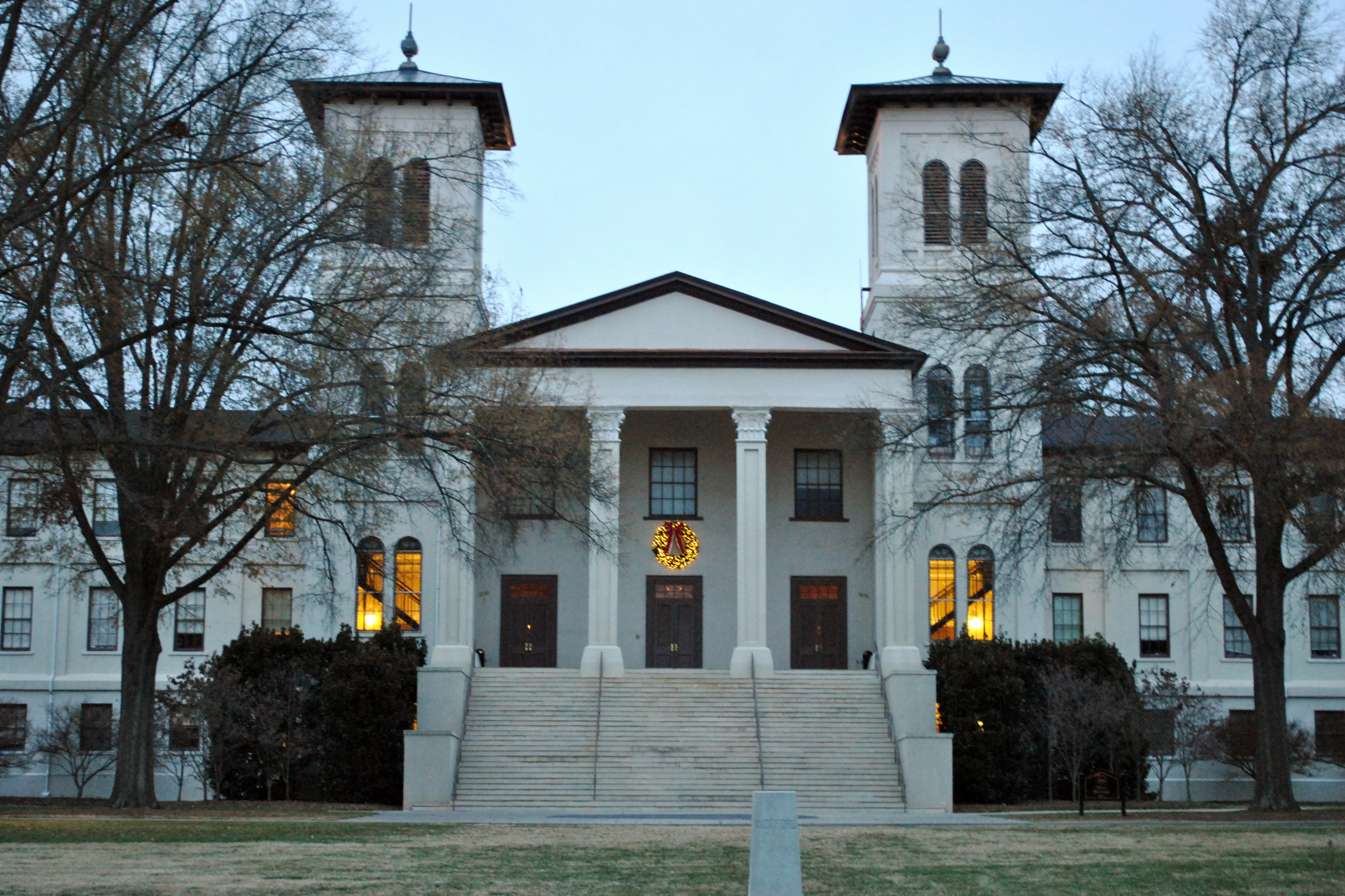 Wofford College's Main Building was built in 1854 and originally housed the entire college.